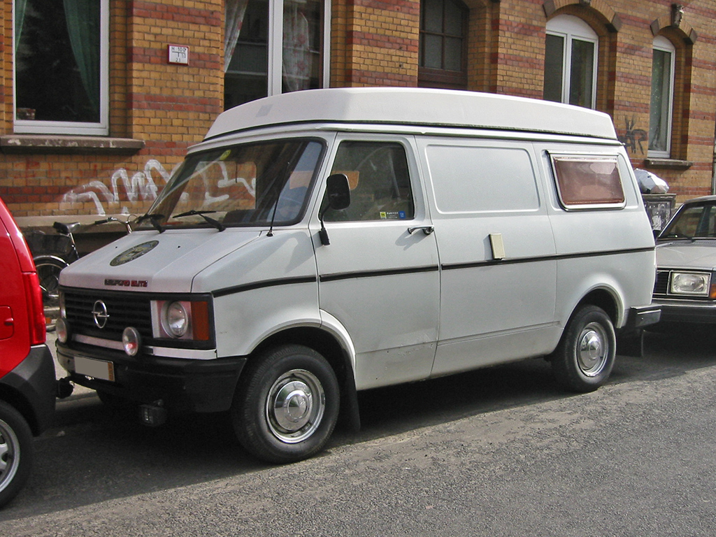 Opel Bedford Blitz built in the United Kingdom (1973-1987) and sold in Europe like Opel.